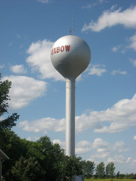 Water tower in Oxbow, Saskatchewan